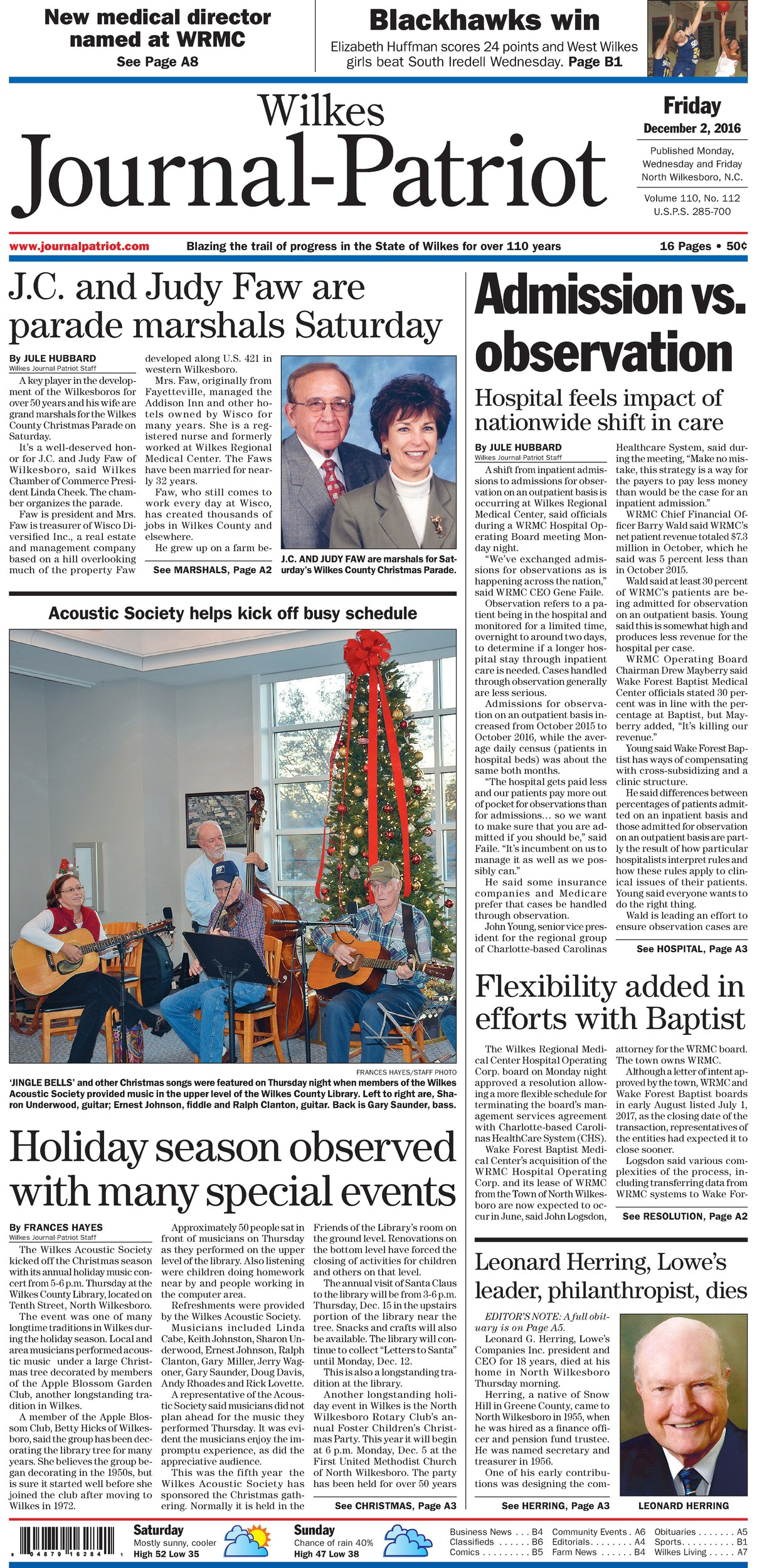 Front page of the Wilkes Journal-Patriot from Friday, Dec 2nd, 2016.